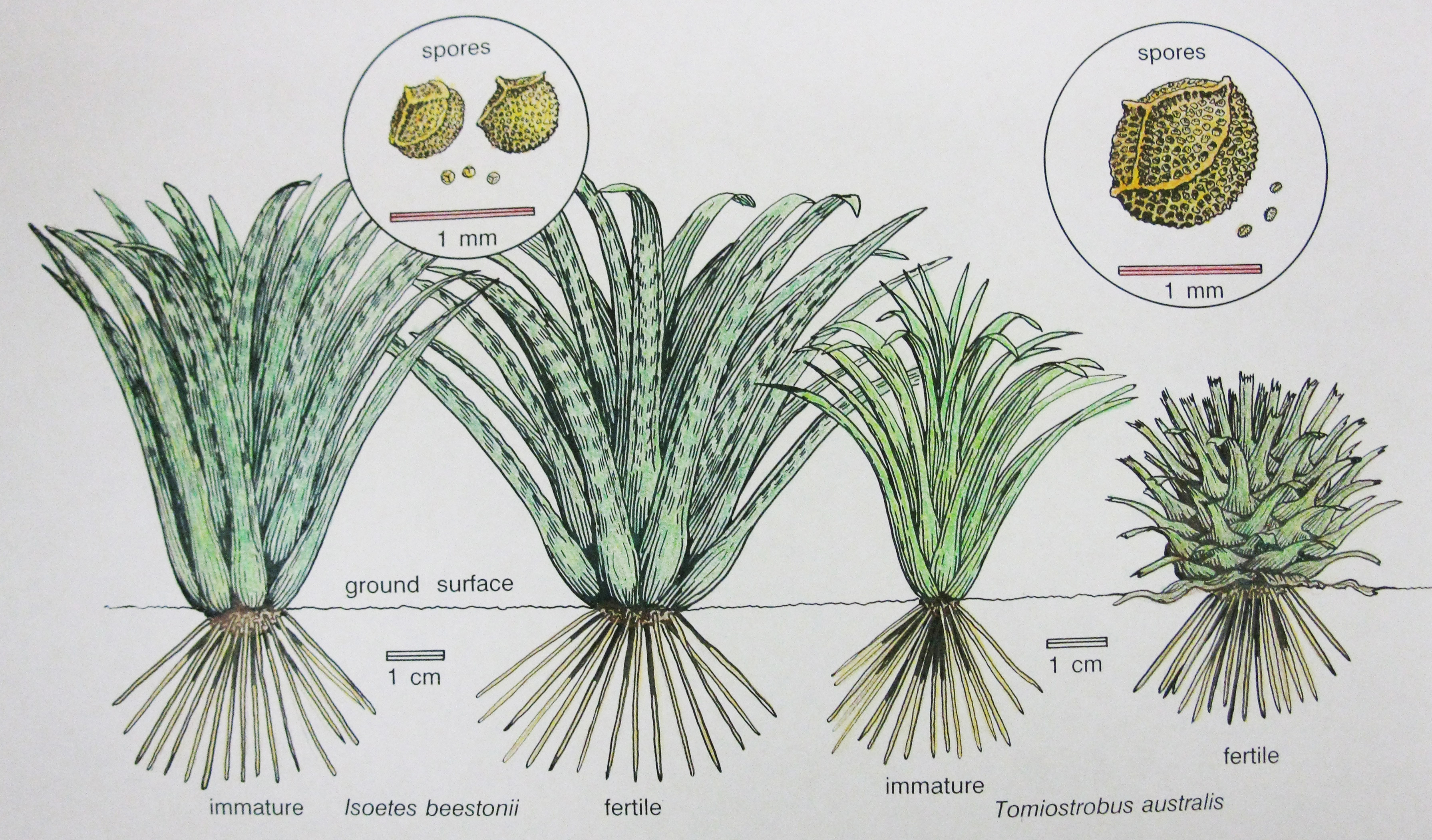 Reconstruction of latest Permian Isoetes beestonii and early Triassic Tomiostrobus australis, from NSW, Australia